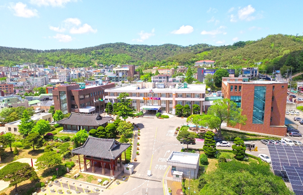 Seosan City Hall